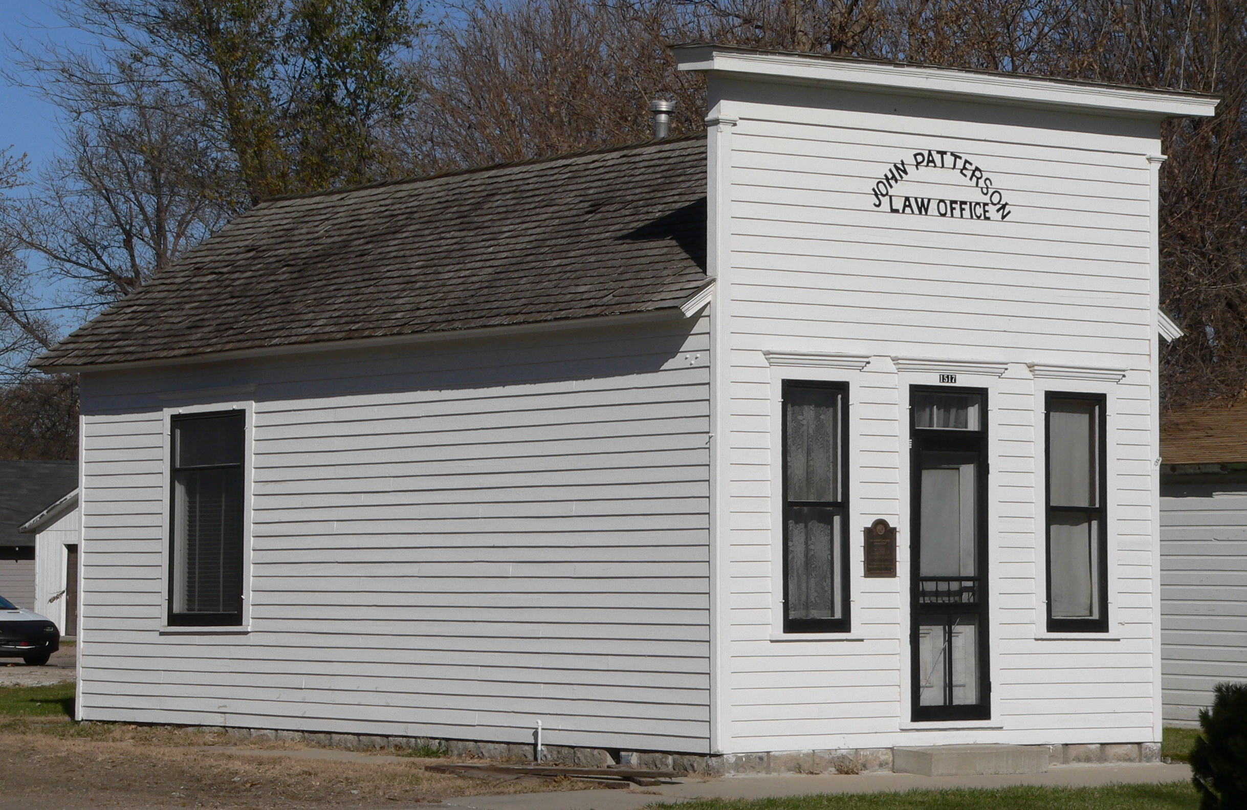 Patterson Law Office at 1517 18th St. in Central City, Nebraska, seen from the southwest. The false-front building was constructed in 1872, and is listed in the National Register of Historic Places.